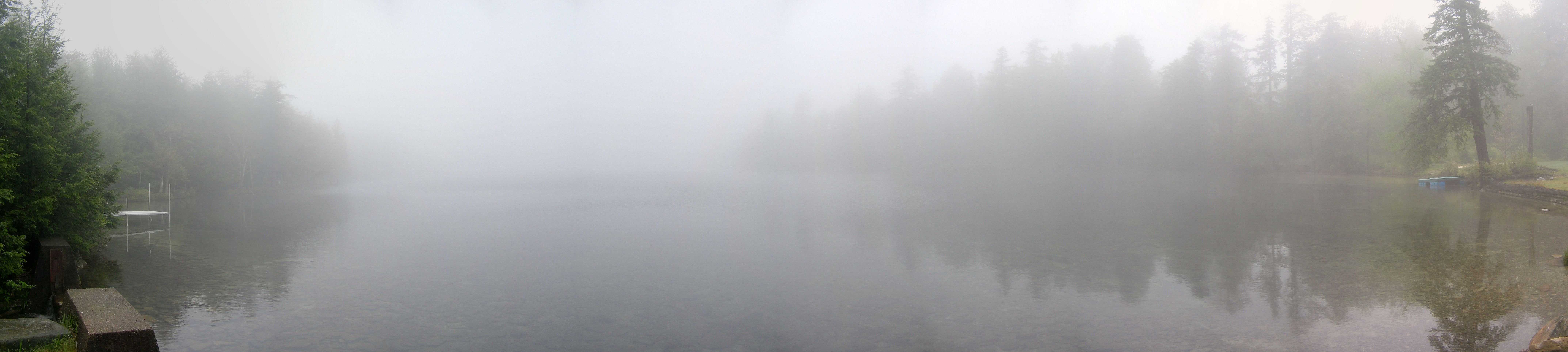 Panoramic view from the south end of Ganoga Lake in Colley Township, Sullivan County, Pennsylvania in the United States. It was foggy.